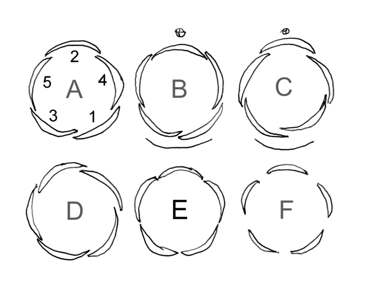 diagrams depicting different kinds of aestivation in flower buds/Diagramme, die die Aestivationstypen darstellen: A-C: imbricate/imbricat: A ?/quincuncial, B ?/cochlear aufsteigend, C ?/cochlear absteigend, D contorted/contort, E vavlate/valvat, F open/apert